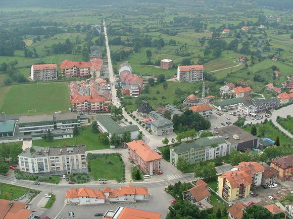 Panoramic view of Kalesija, Bosnia and Herezegovina